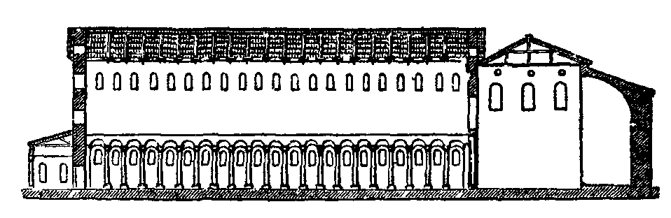 Illustration from 1911 Encyclopædia Britannica, article BASILICA. Fig. 13.—Section of the Basilica of St Paul, Rome.